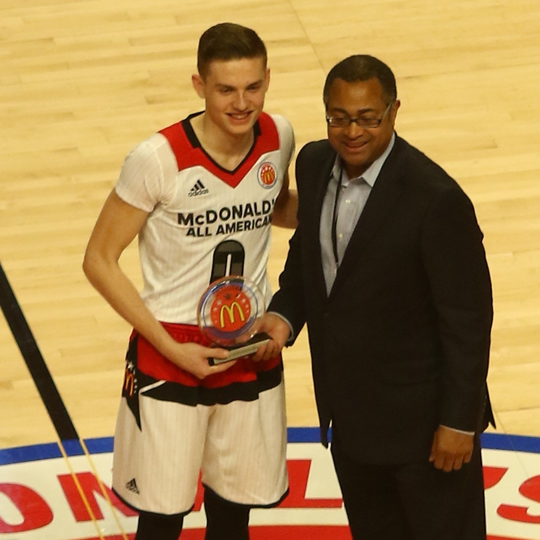 Kyle Guy at the w:2016 McDonald's All-American Boys Game